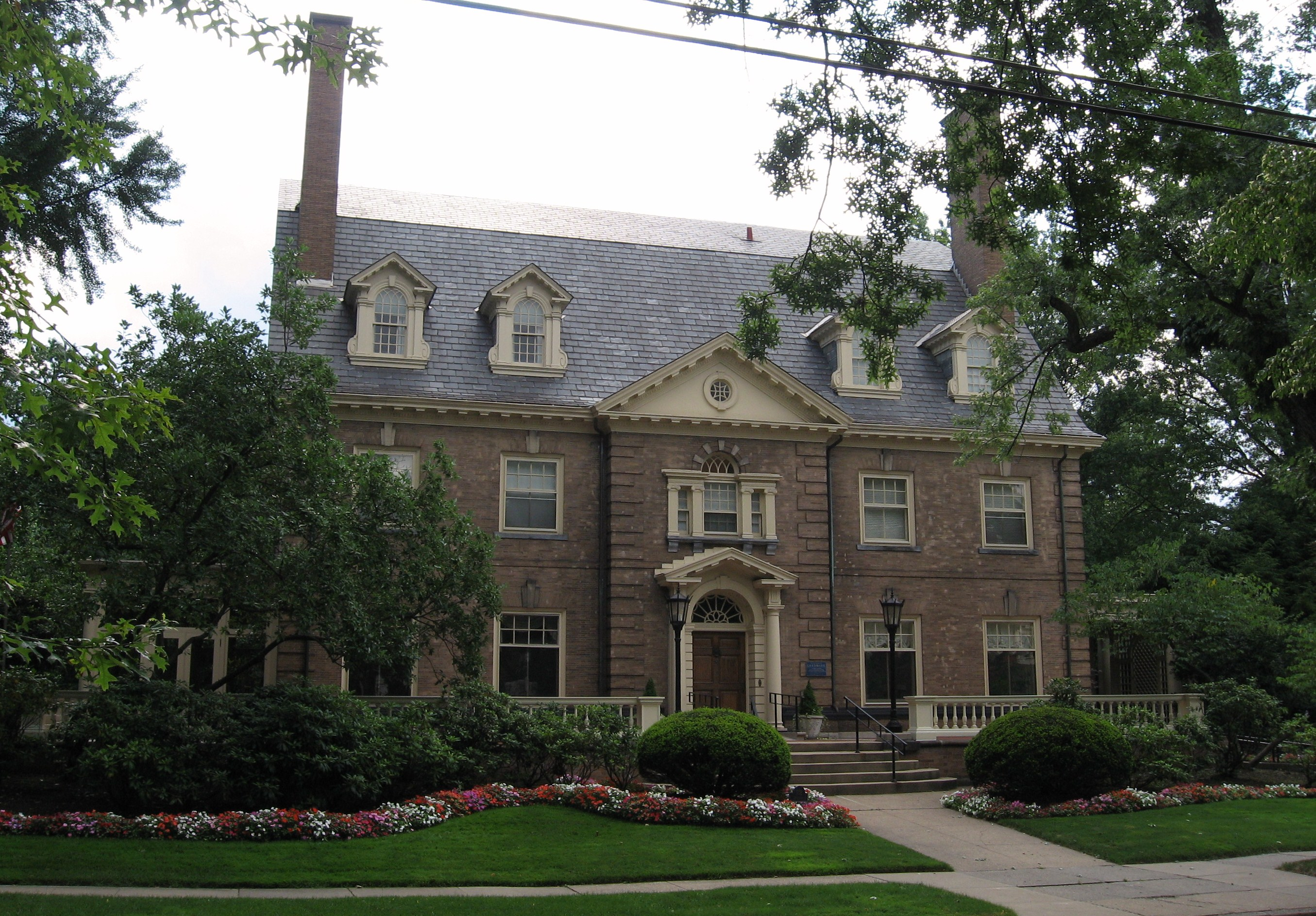 Chancellor's Residence at University of Pittsburgh.40°26′56.2″N 79°56′41.5″W / 40.448944°N 79.944861°W